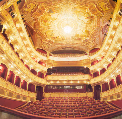 State Theatre Kosice